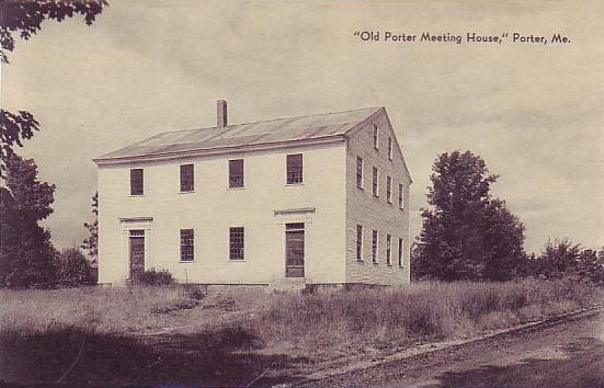 Old Porter Meeting House, Porter, ME; from a c. 1922 postcard. It was built in 1828.